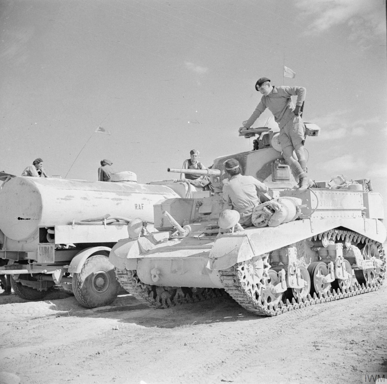 The British Army in North Africa 1942 A Stuart tank being refuelled from an RAF fuel bowser outside Sidi Barrani, 15 November 1942.